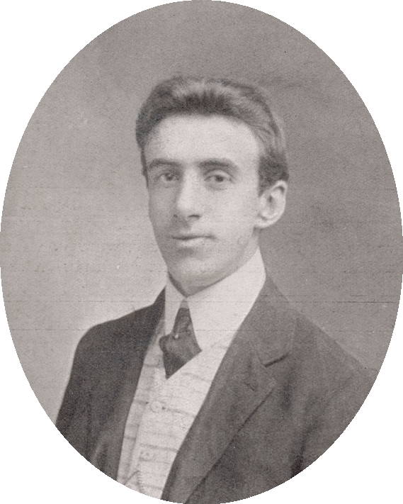 Wallace Hartley, bandmaster and violinist on board the Titanic.